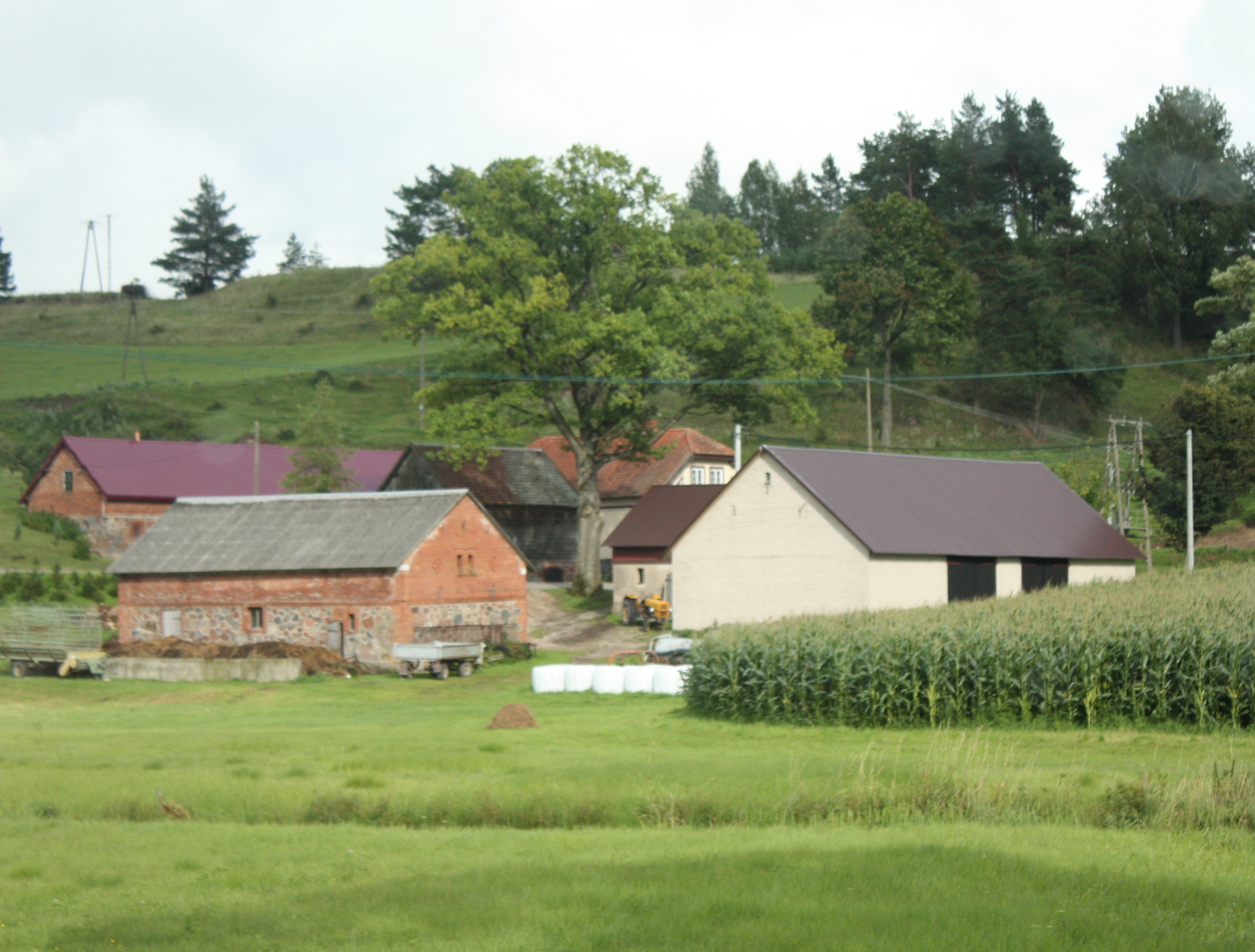 This photo of Warmian-Masurian Voivodeship was taken during Wikiexpedition 2012 set up by Wikimedia Polska Association. You can see all photographs in category Wikiekspedycja 2012. The making of this document was supported by Wikimedia Polska.